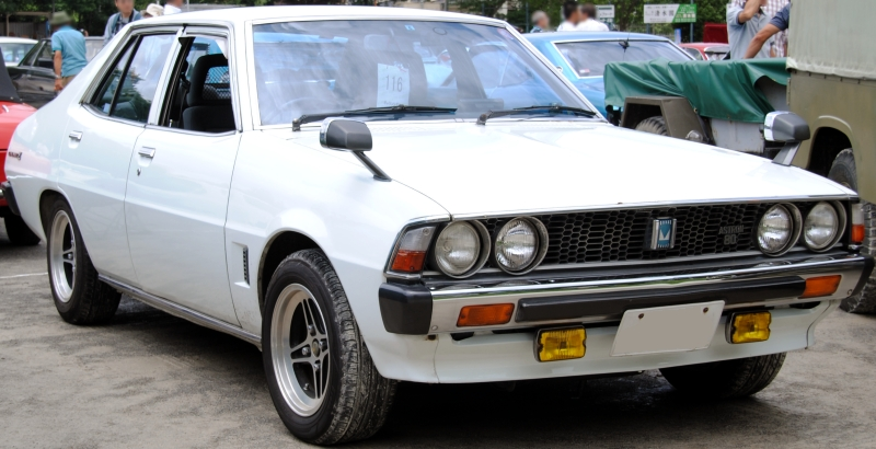 Mitsubishi Galant Sigma 2000 GSL